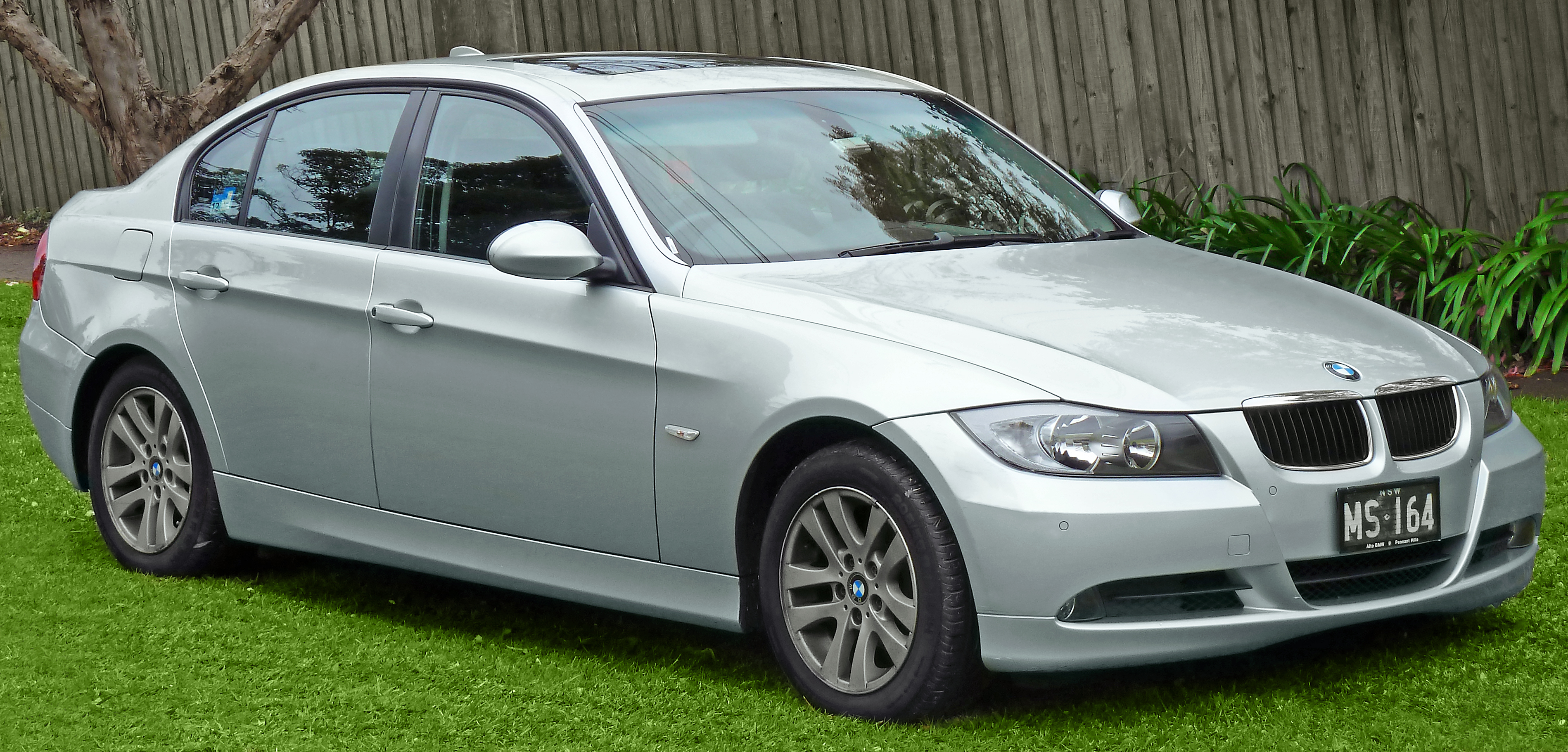 2005–2008 BMW 320i (E90) sedan. Photographed in Roseville, New South Wales, Australia.